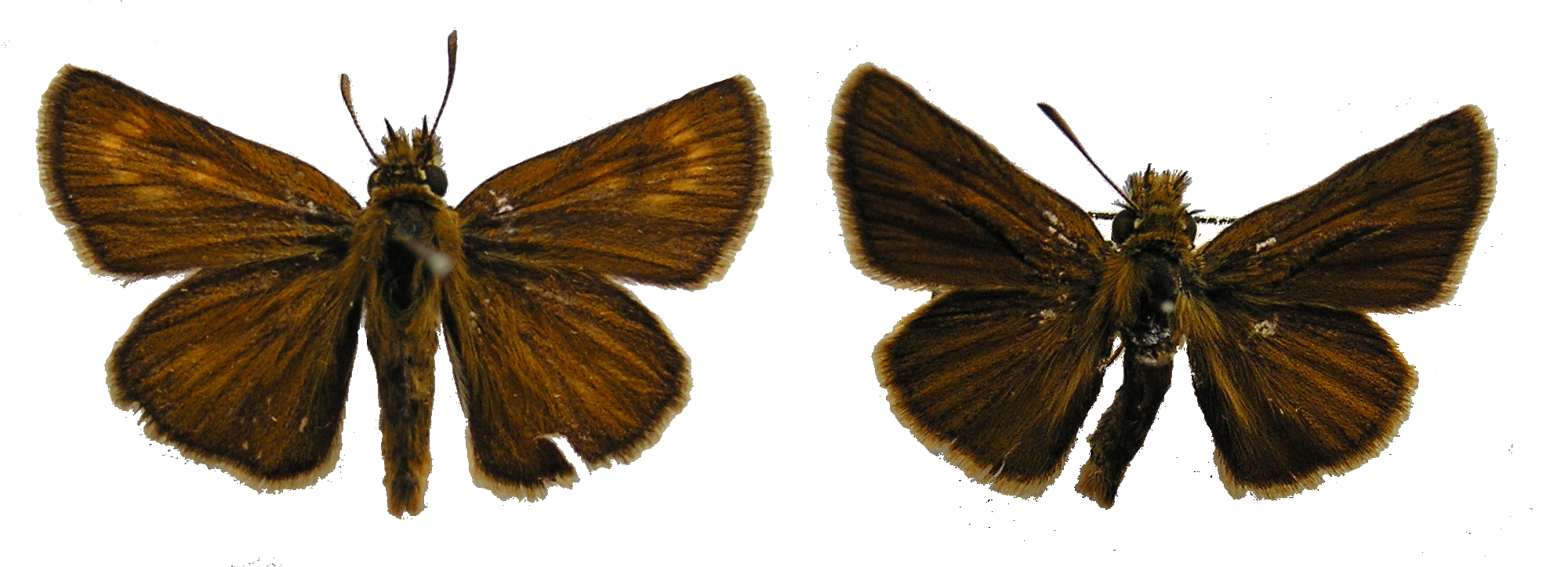 An image containing male and female specimens of the Lulworth Skipper butterfly.